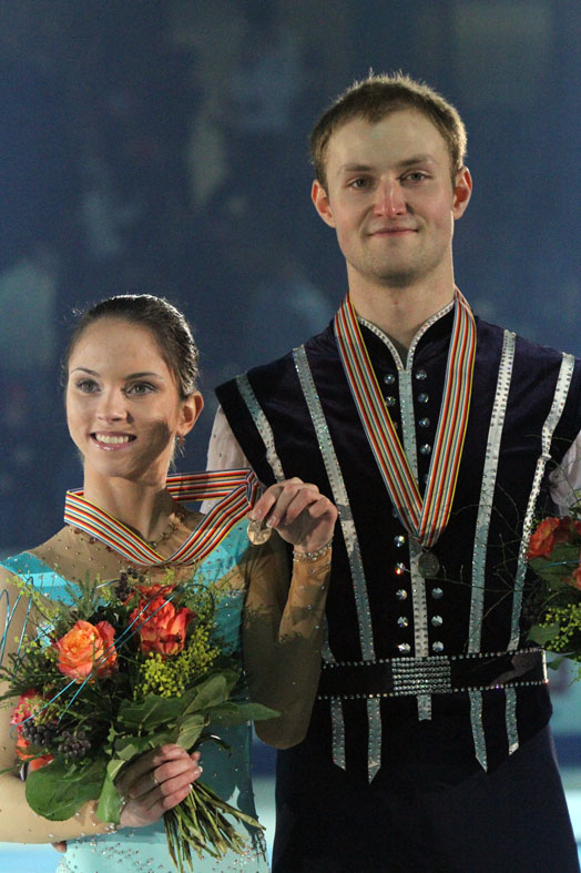 Vera Bazarova / Yuri Larionov at the 2011 European Figure Skating Championships.